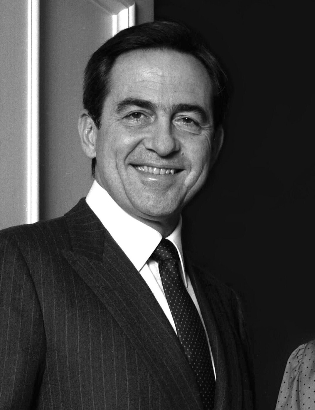 Constantine II of Greece in 1987.